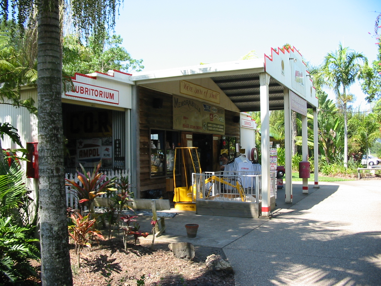 This early example of a country service station is part of the display at the Ginger Factory in Yandina on the Sunshine Coast of Queensland.